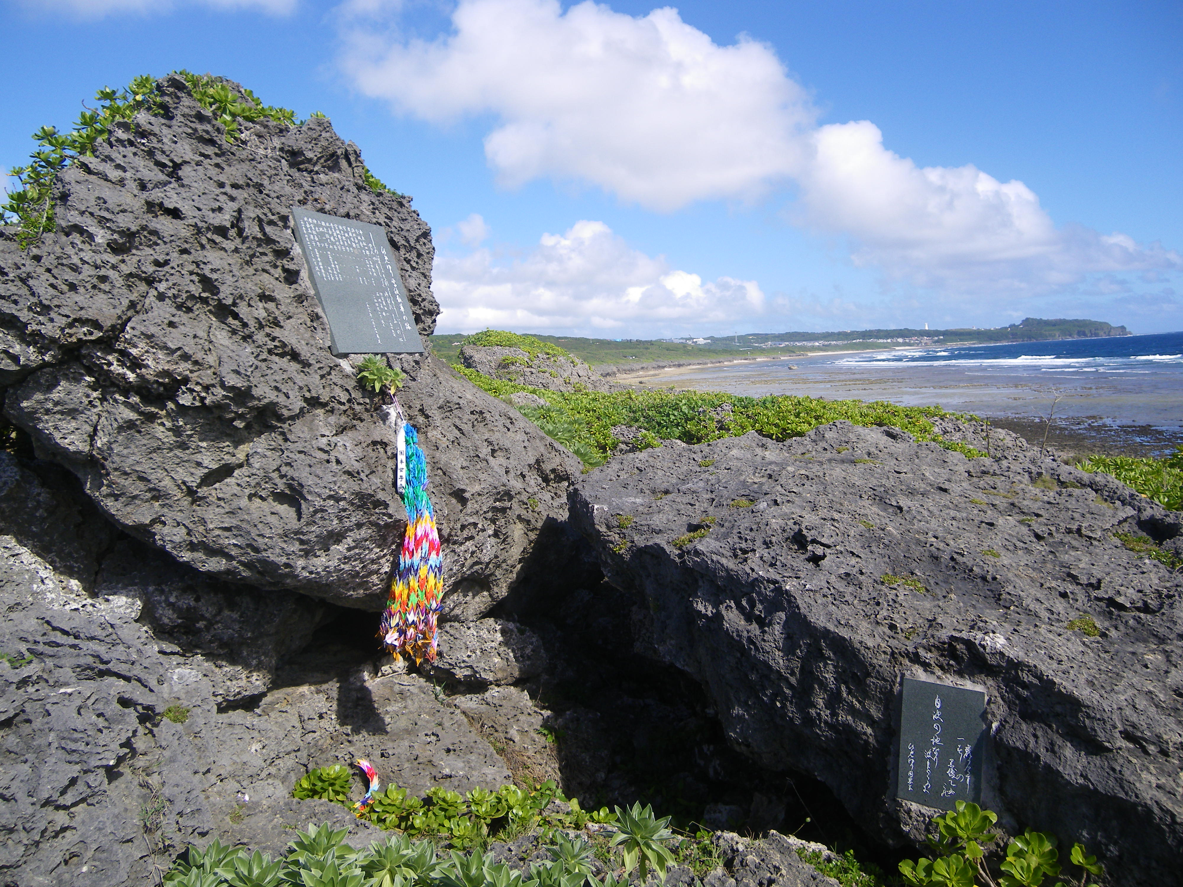 Cenotaph for the Himeyuri Students who committed suicide by her grenades, and who were killed by guns shot by American soldiers on 21 June 1945, at the Arasaki Coast, Itoman City, Okinawa Prefecture, Japan.